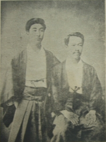 Park young-hyo(right), Doykyo in Japen